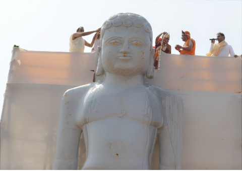 Tallest statue of Lord Vasupujya